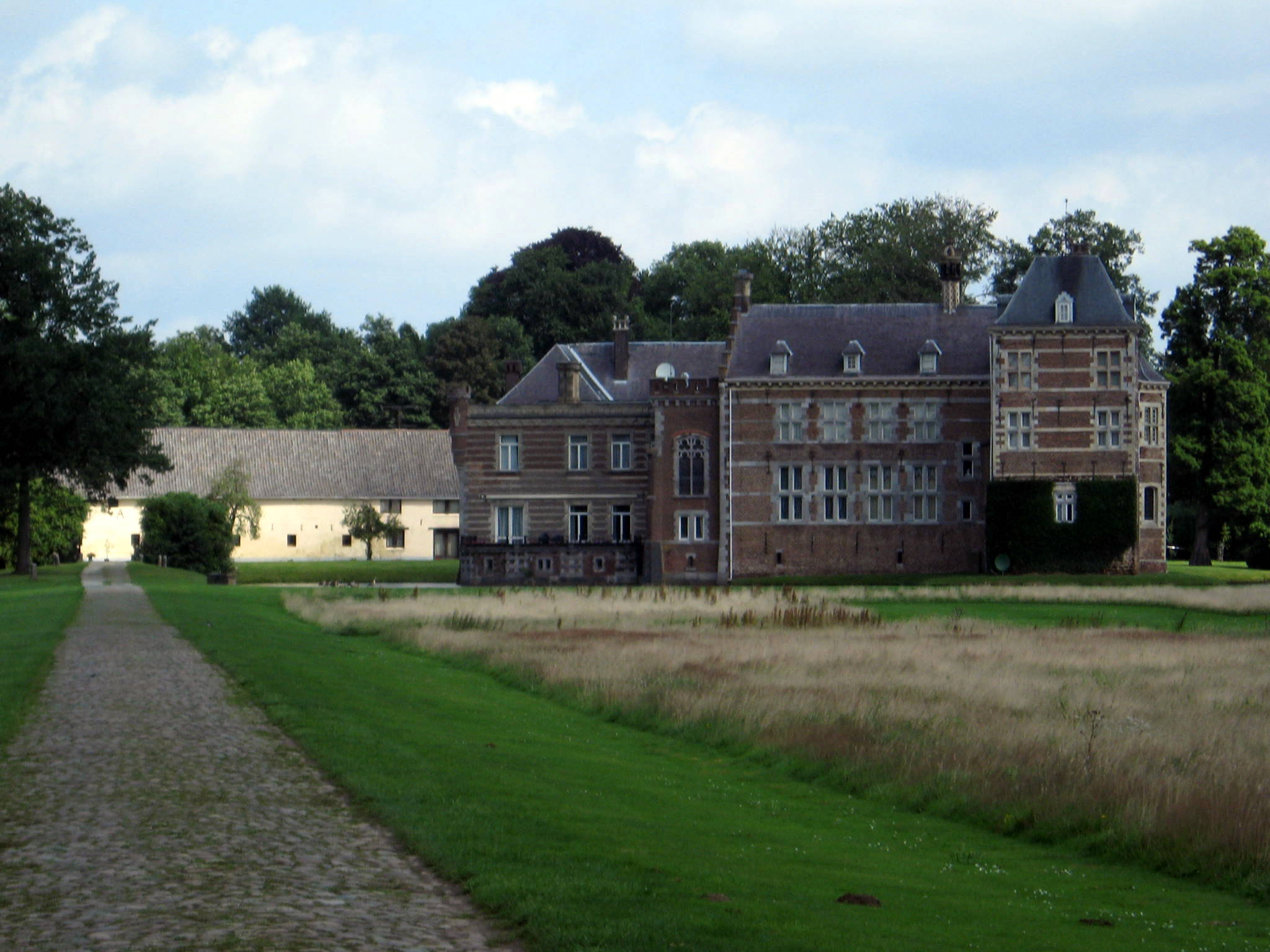 Close-up of Castle of Vogelsanck in Zolder, Heusden-Zolder, Limburg, Belgium